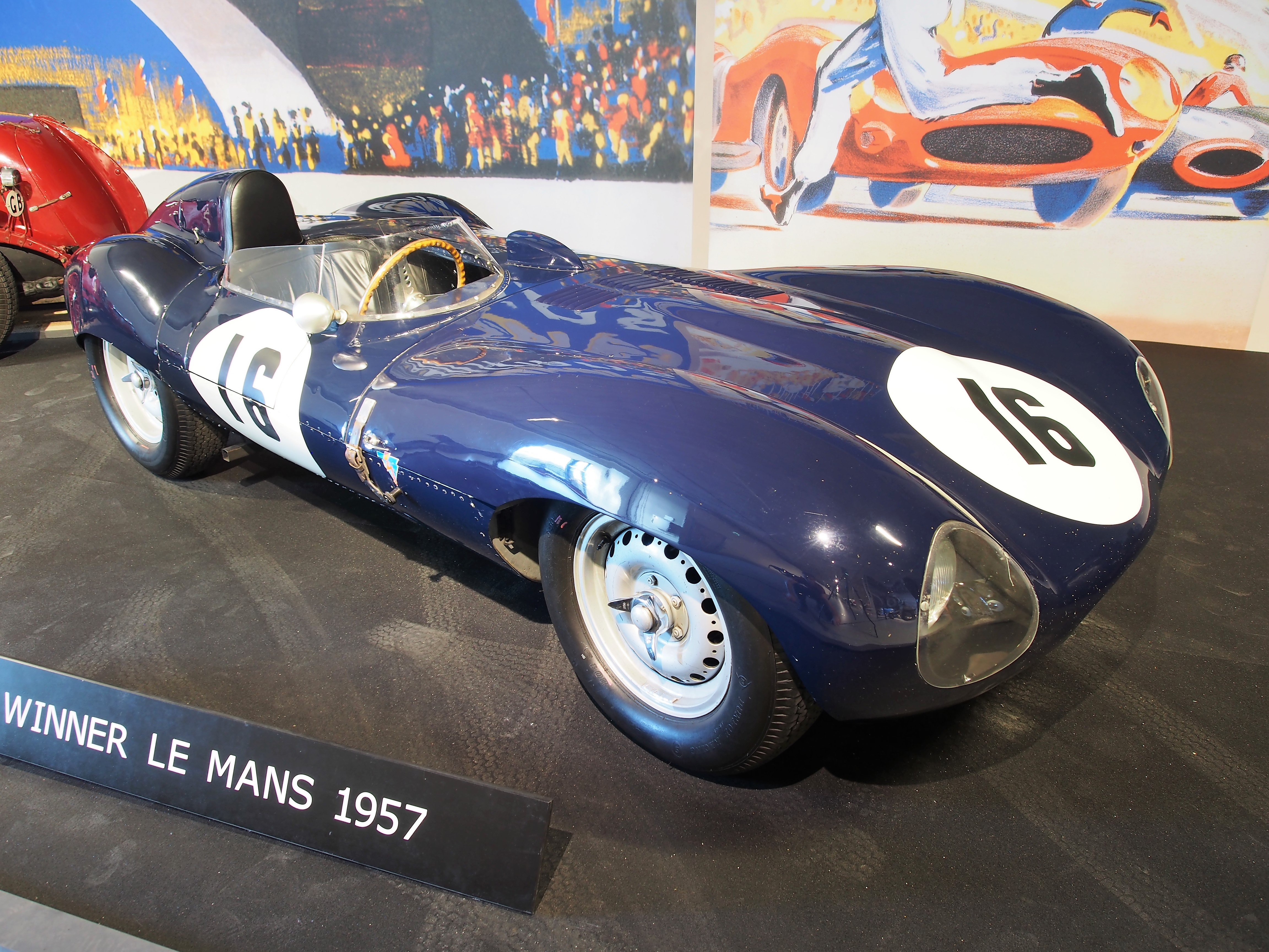 1956 JAGUAR D-TYPE XKD 606 photographed at the Louwman museum.